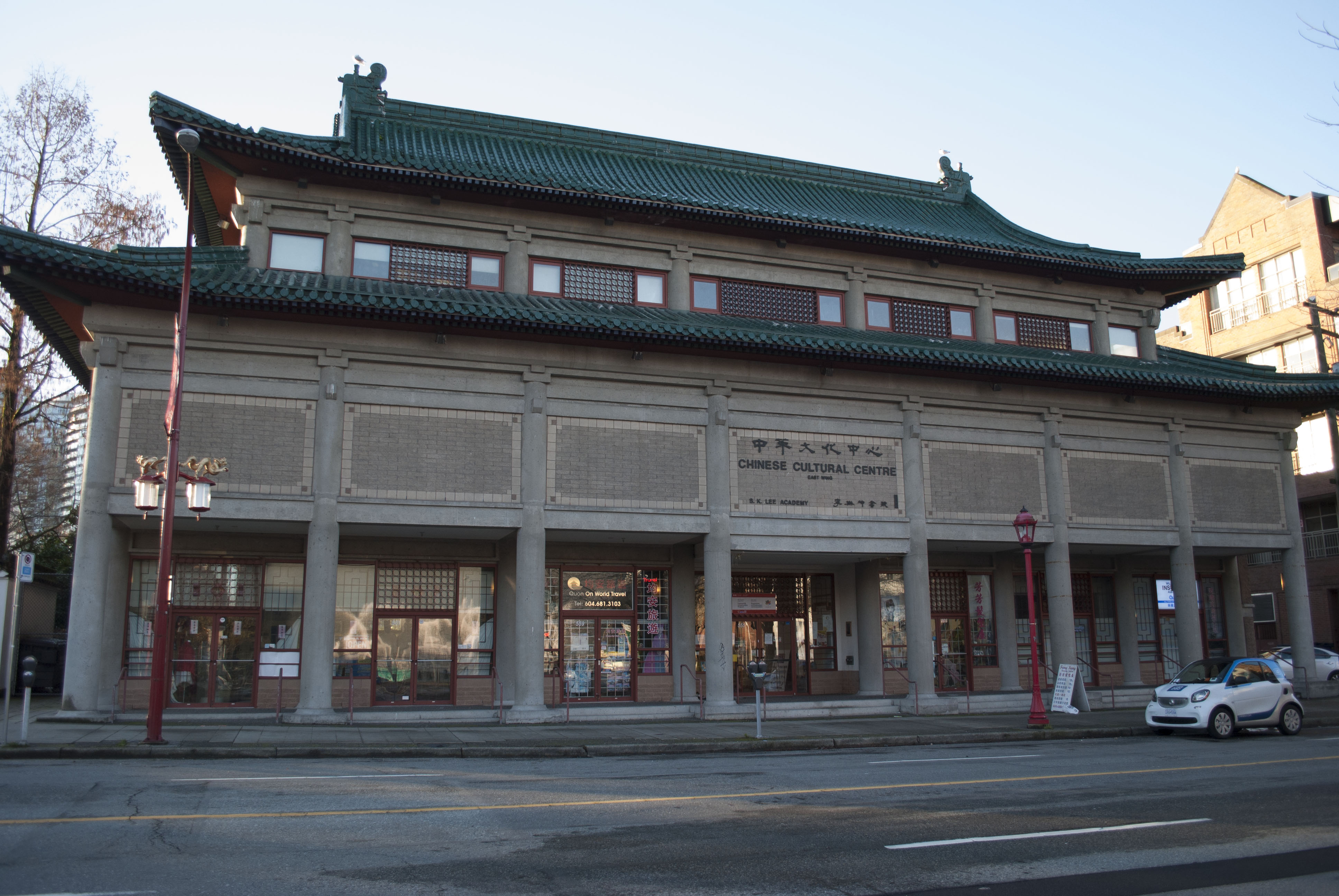 Picture of Chinese Cultural Centre, Vancouver. The Chinese Canadian Military Museum Society is the second floor.